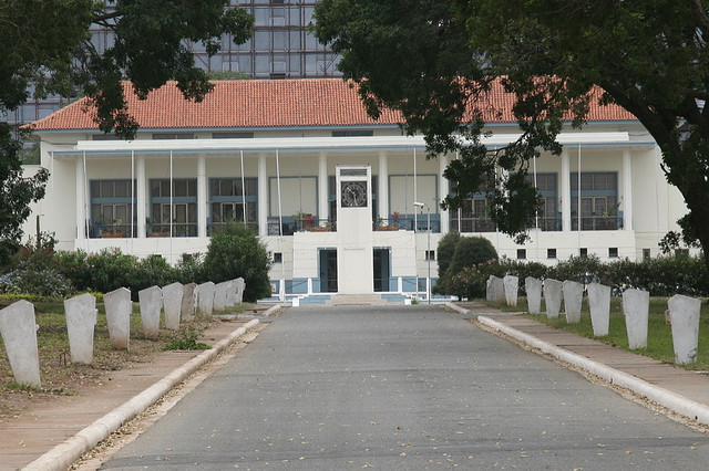 Taken by Guido Sohne with a Canon EOS 30D camera. The Parliament of Ghana is housed here and the Speaker of Parliament as well as other senior staff members work from Parliament House (State House).